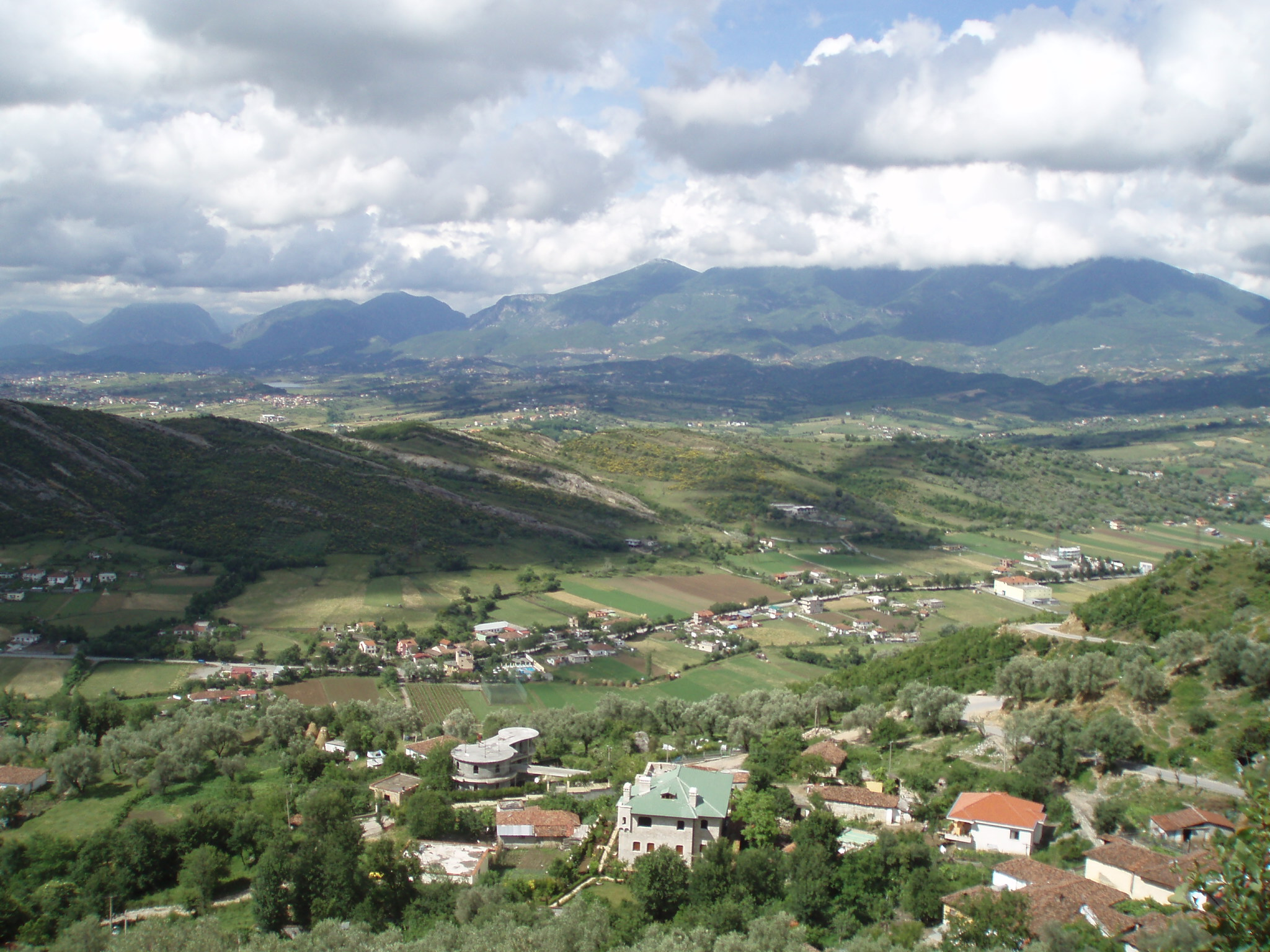 View from Petrela Castle towards Tirana, Albania